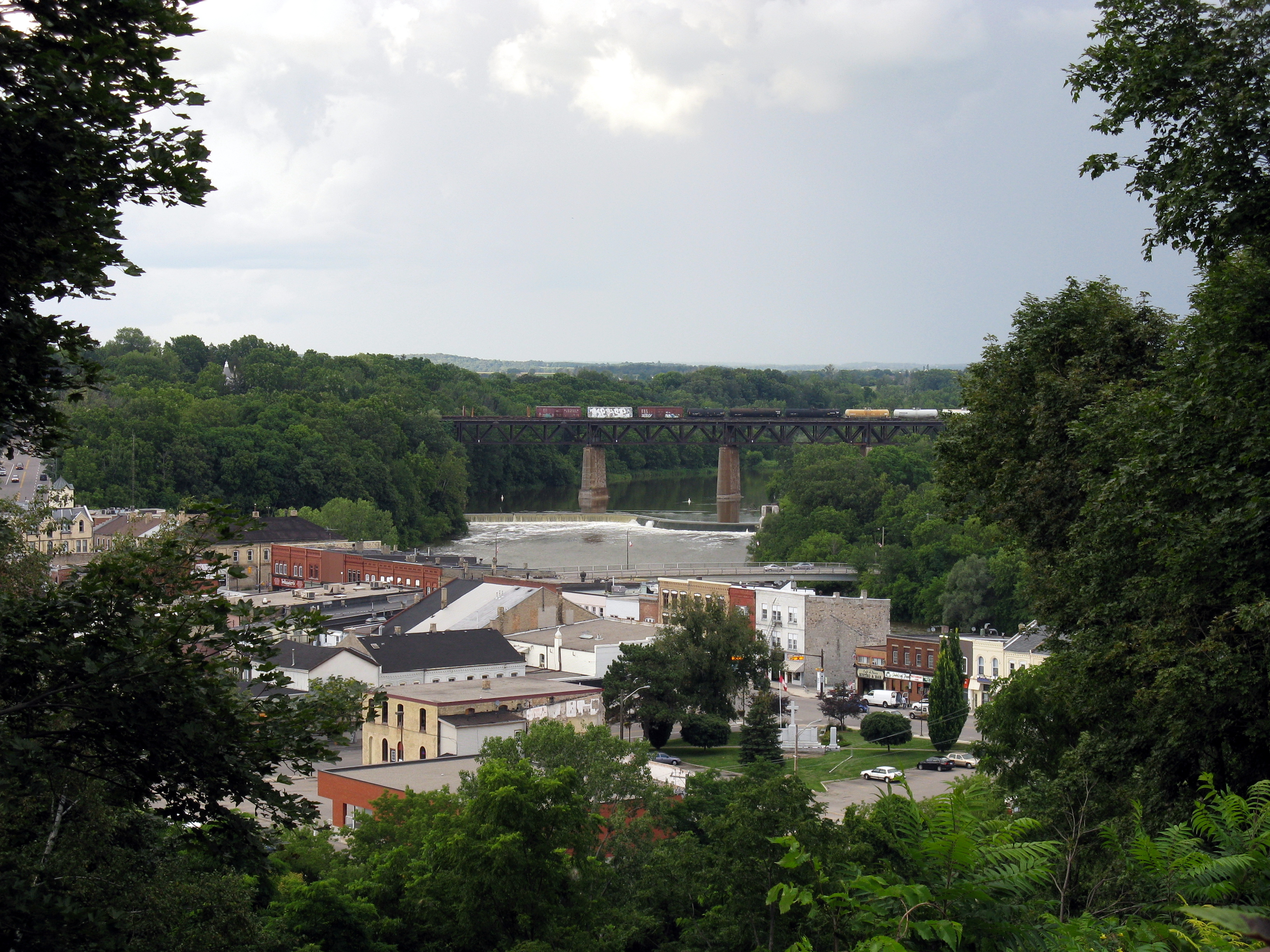 View of Paris, Ontario downtown and Grand River.